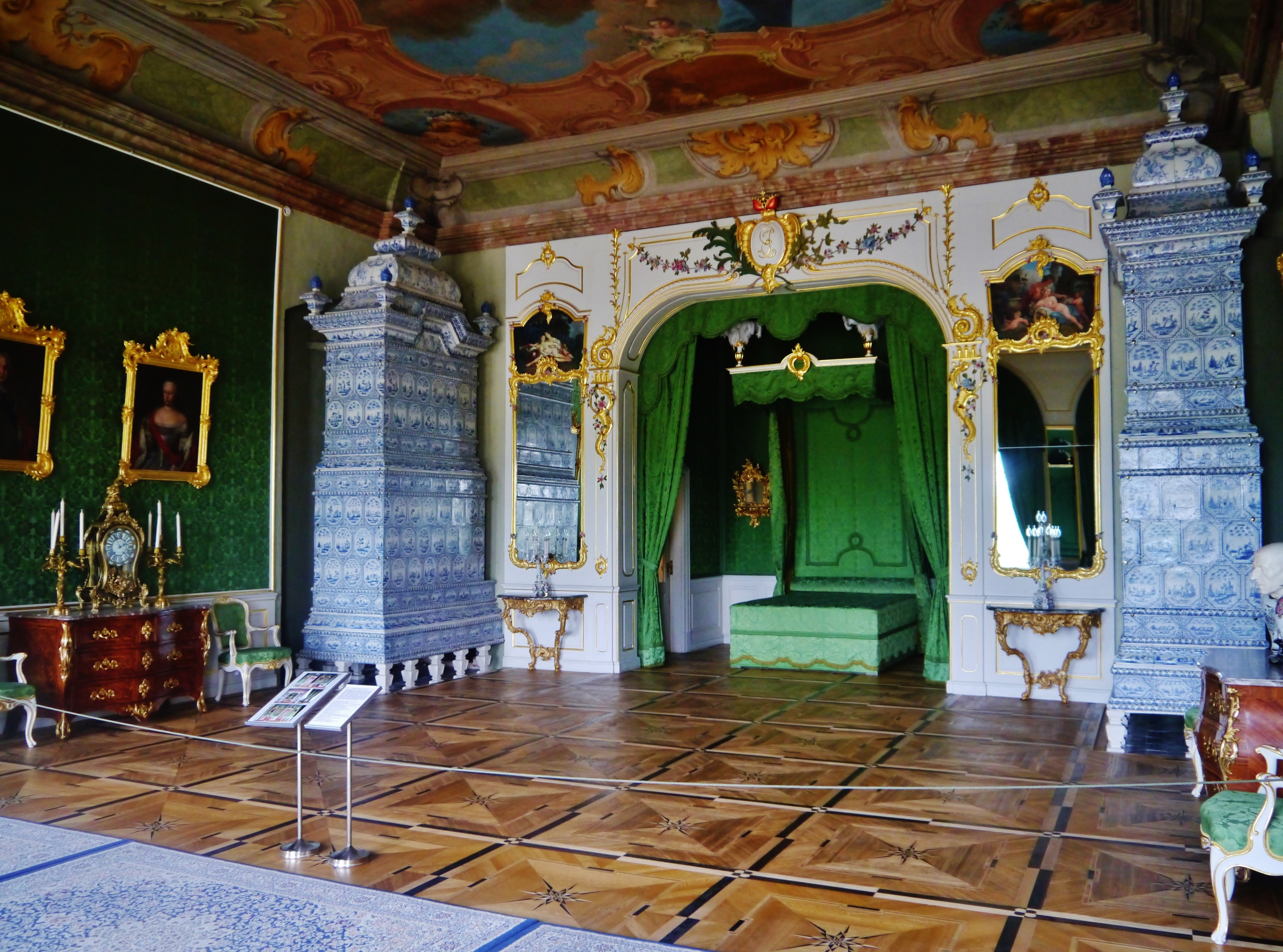 Sleeping room of the Duke of Rundale Palace, Bauska, Latvia